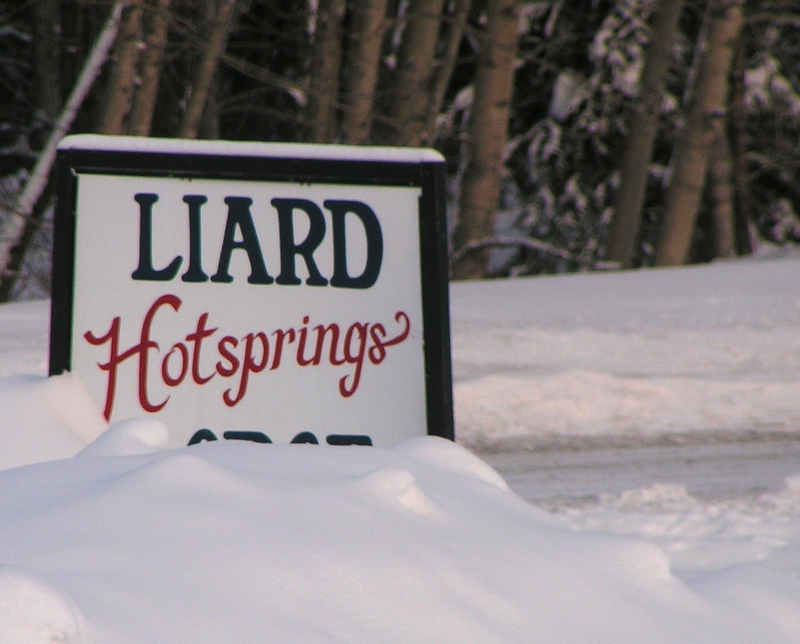 Liard River Hotsprings, welcome sign